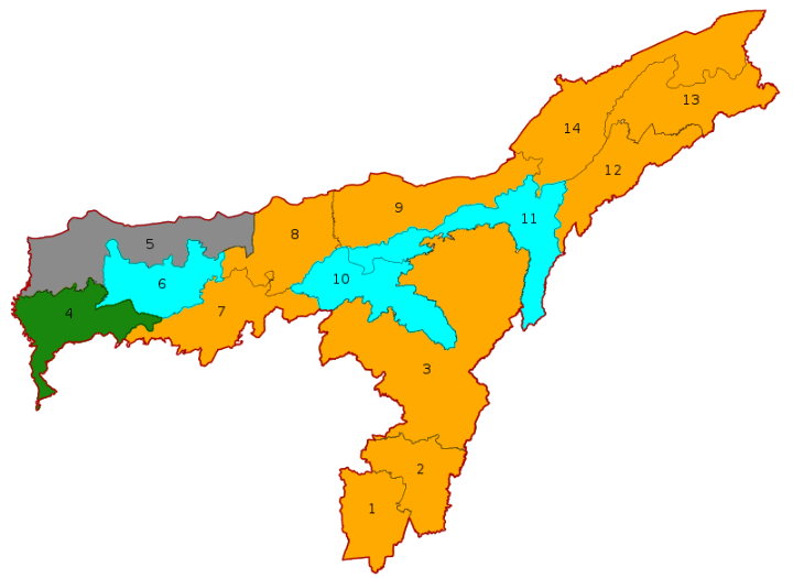 Seats won by parties in assam parliamentary constituencies